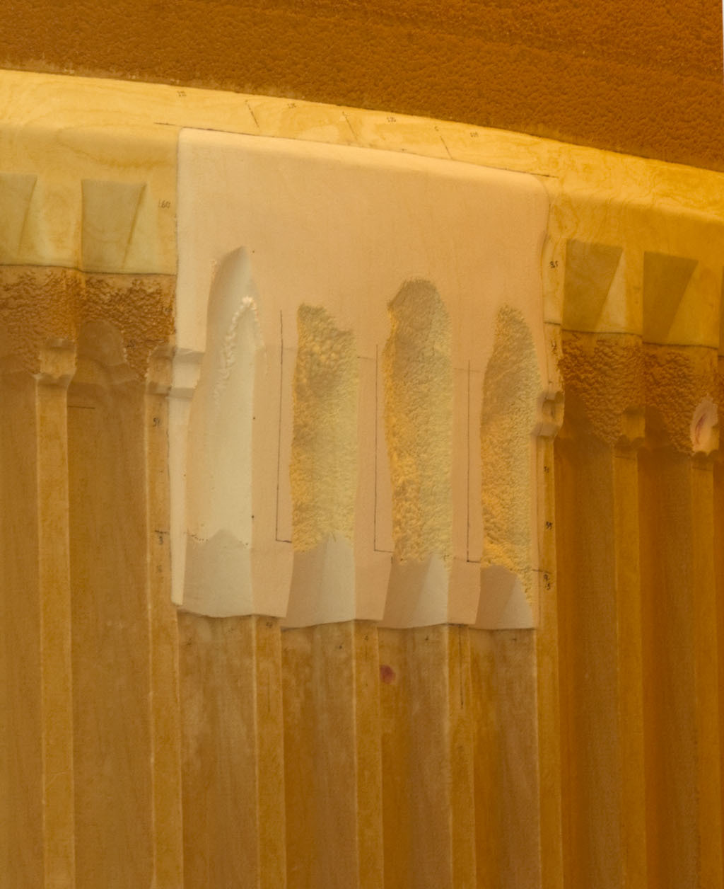 CAPE CANAVERAL, Fla. – On Launch Pad 39A at NASA's Kennedy Space Center in Florida, the cracks on space shuttle Discovery's external fuel tank have been repaired. The foam cracked during initial loading operations for Discovery’s STS-133 mission to the International Space Station on Nov. 5. The cracks were on two of the 108 stringers, which are the composite aluminum ribs located vertically on the intertank area. Discovery's next launch attempt is no earlier than Dec. 17 at 8:51 p.m. EST. Until then, engineers will continue to analyze data from the GUCP and stringer crack repairs. For more information on STS-133, visit